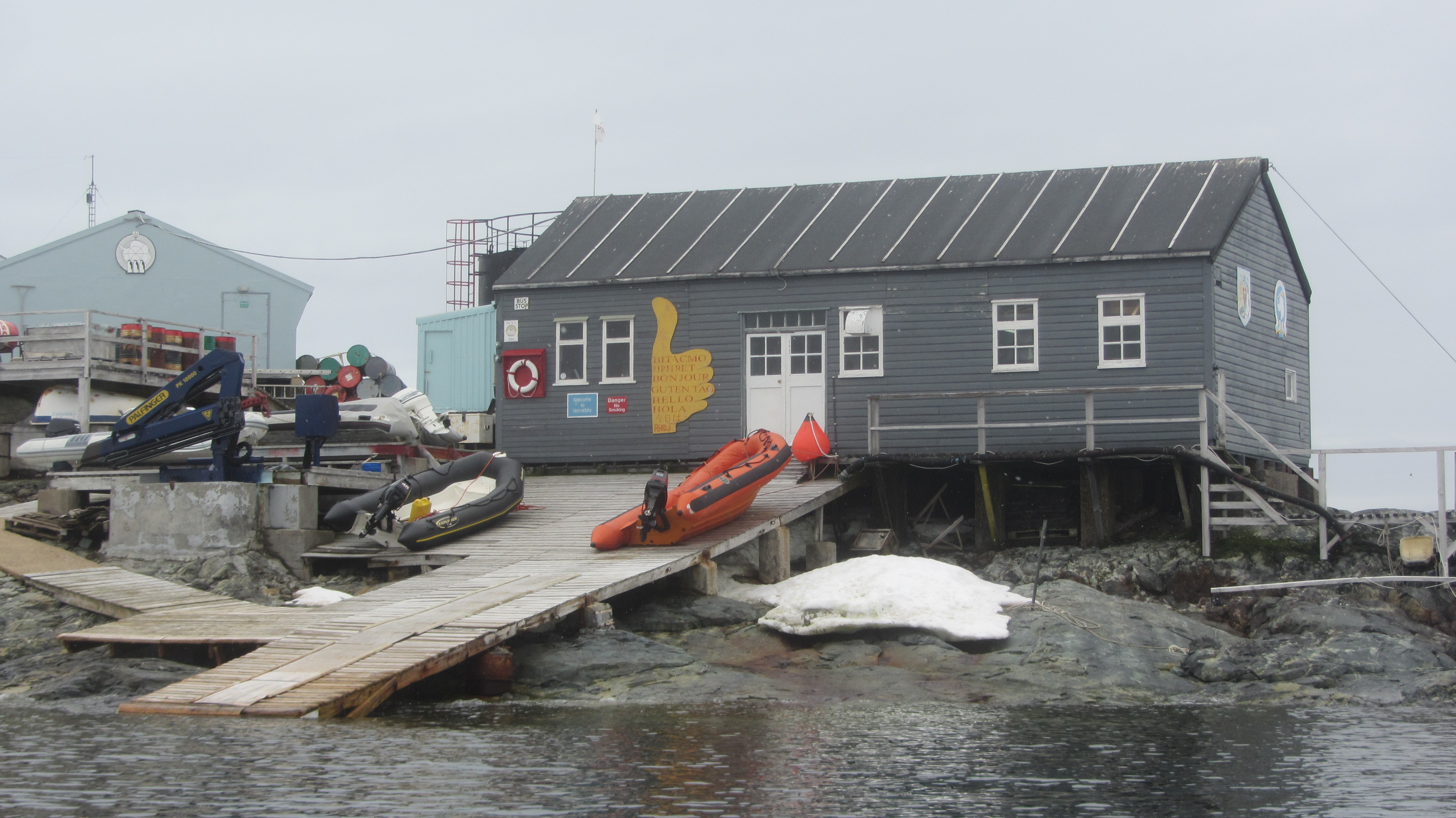 Wooden dock at Verandsky Station (Ukraine), Antarctica